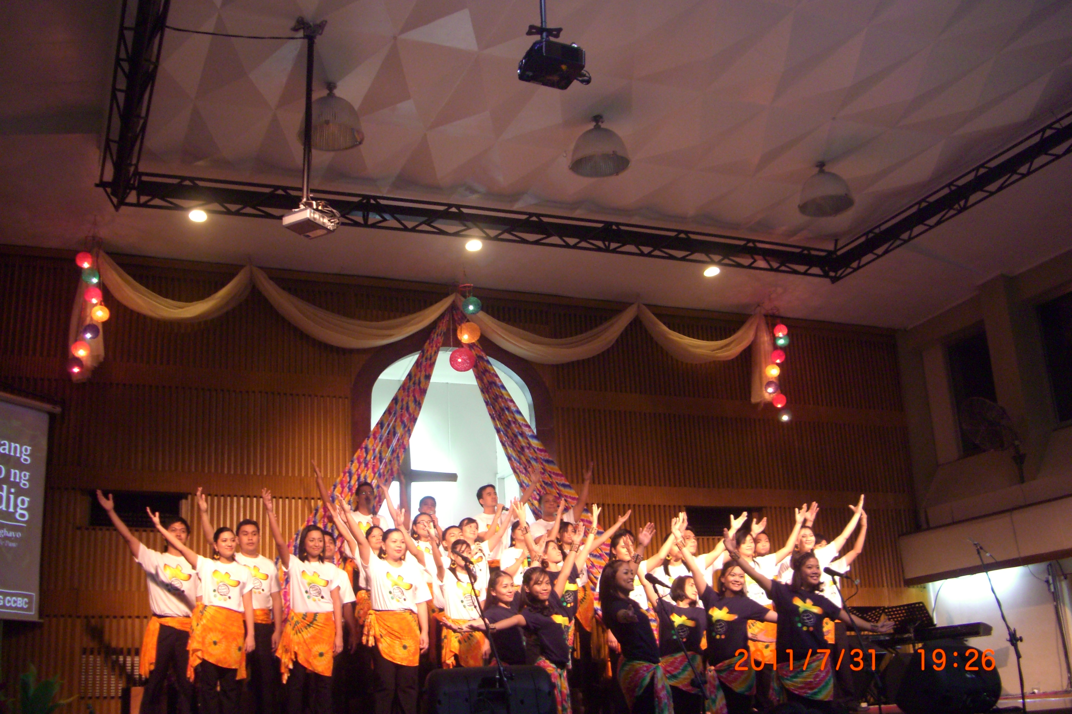 The worship ministry of Capitol City Baptist Church (West Avenue, Quezon City, Philippines) performing during the 52nd anniversary celebration held on July 31, 2011.